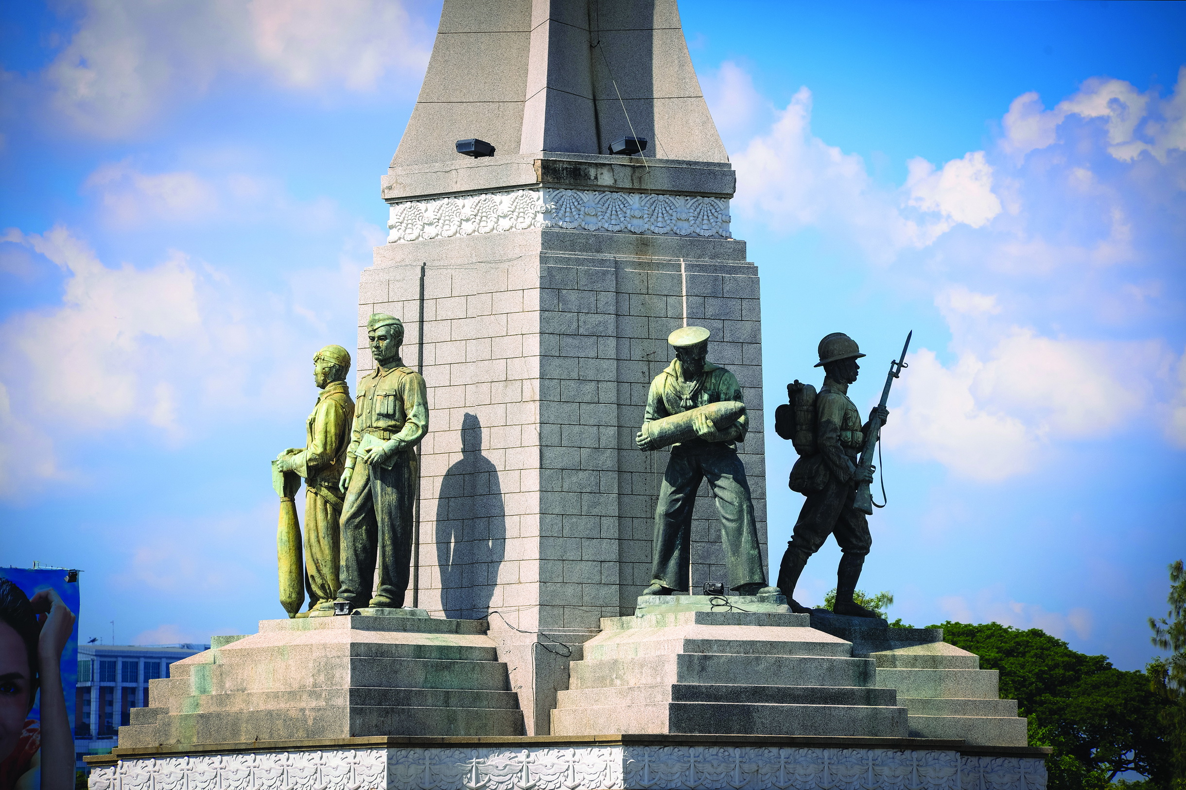 Victory Monument is situated in Ratchathewi district at the centre of Thailand Route 1, between Ratchawithi road and Phaya Thai road. It was constructed in order to commemorate the bravery of 59 officers and civilians who died during a dispute between Thailand and France and to place their ashes. The dispute was about a request by Thailand to the French government for reconsidering the demarcation of the border line between Thailand and Indochina, but the request was refused. Since then, the conflict had been increasingly intense before ending on 28th January, 1941 through a peace talk led by Japan. The monument was made from reinforced concrete and was designed in the shape of five 5 bayonets clasped together, measuring 50 metres in height. The bayonet-shaped structure is surrounded by a sculpture of 5 heroes, representing an army officer, a naval officer, an air force officer, a police office, and a civilian, respectively. Under the sculptures, there is a bronze plate inscribed the name of those who died during the dispute. The structure was designed by M.L. Poum Malakoul, but the figures round the monument were designed and sculptured by Professor Silpa Bhirasri.